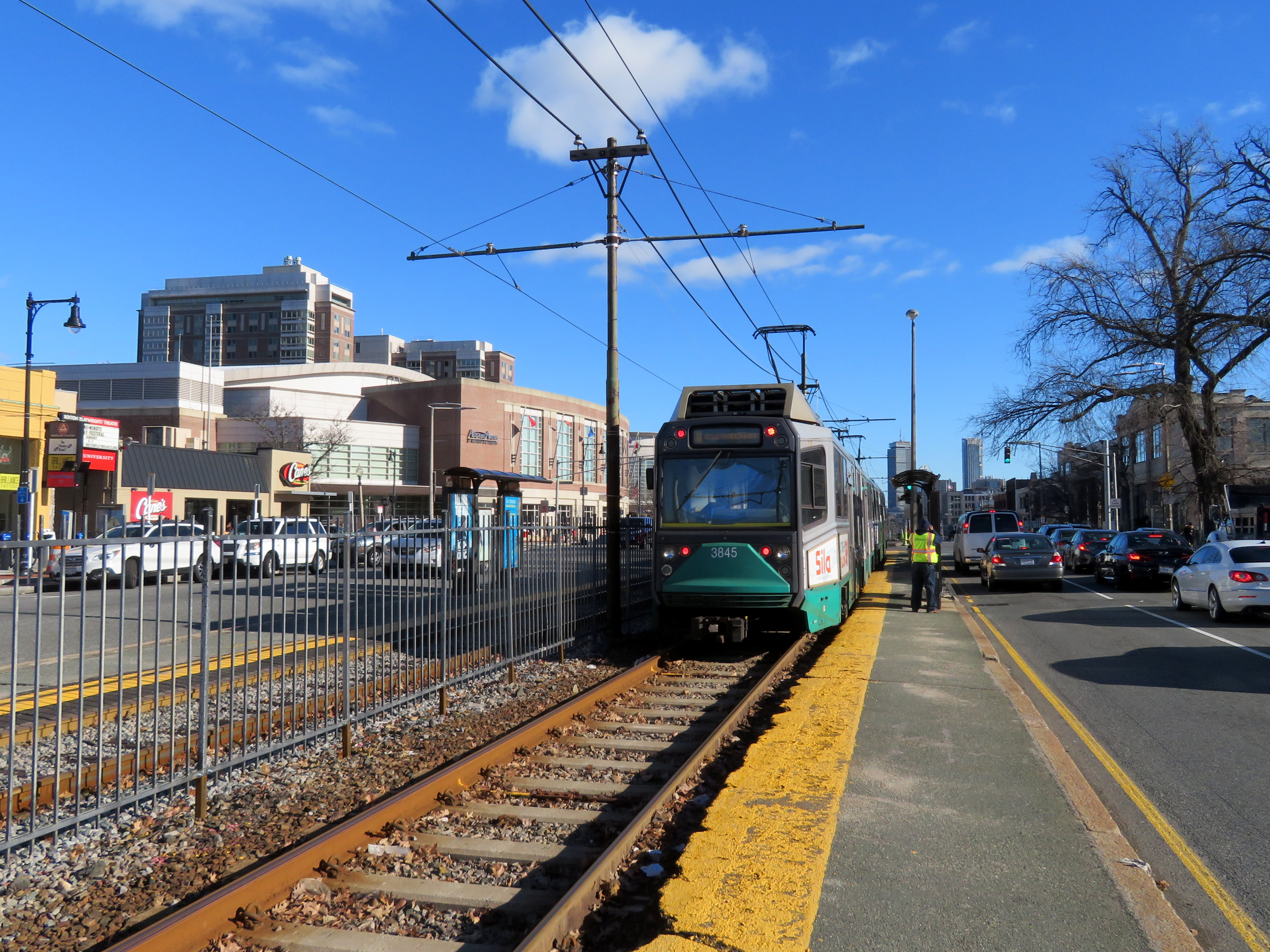 An inbound train at Pleasant Street station in December 2018